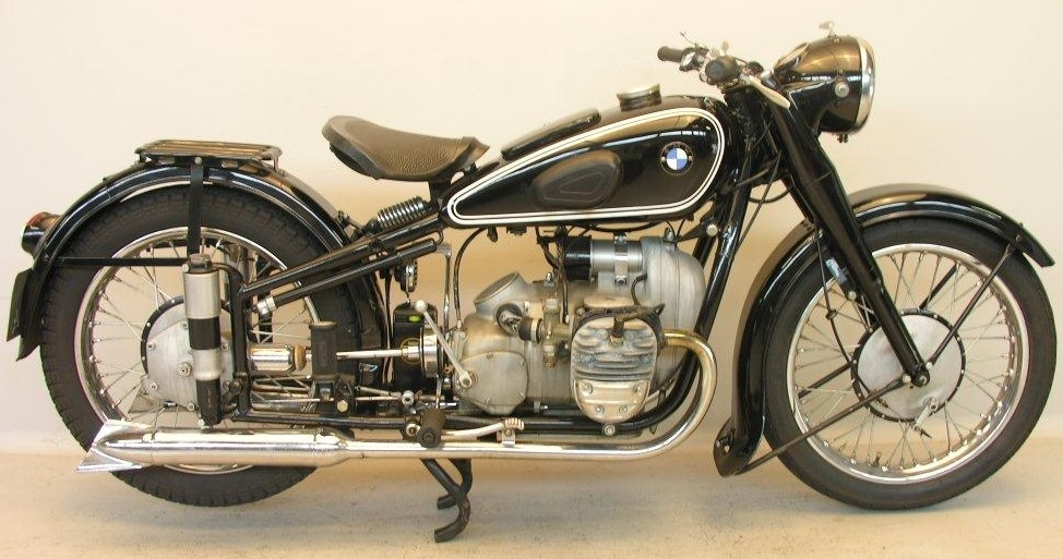 1938 BMW R61 600 cc sv motorcycle